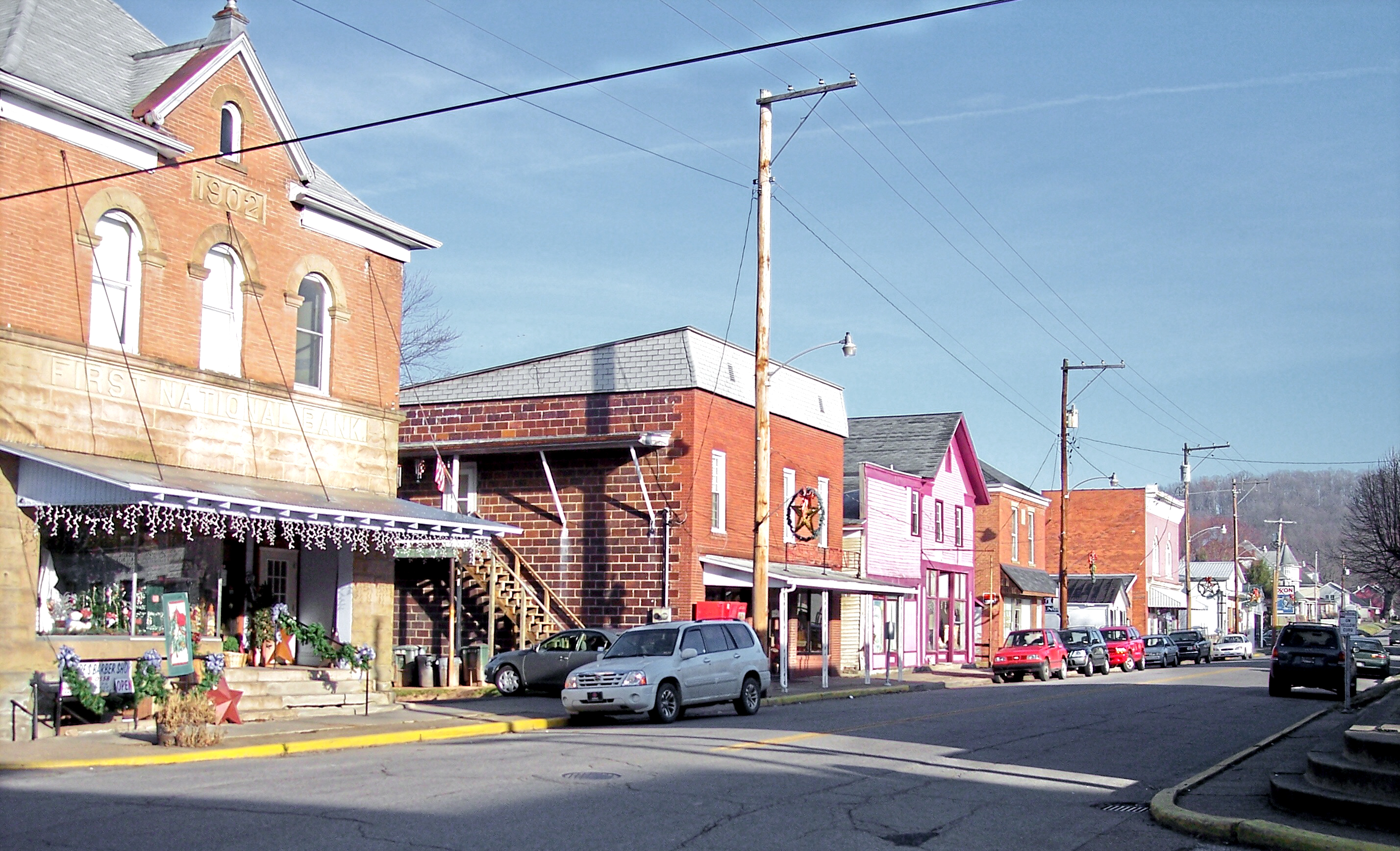 Main Street (West Virginia Route 18) in Middlebourne, West Virginia